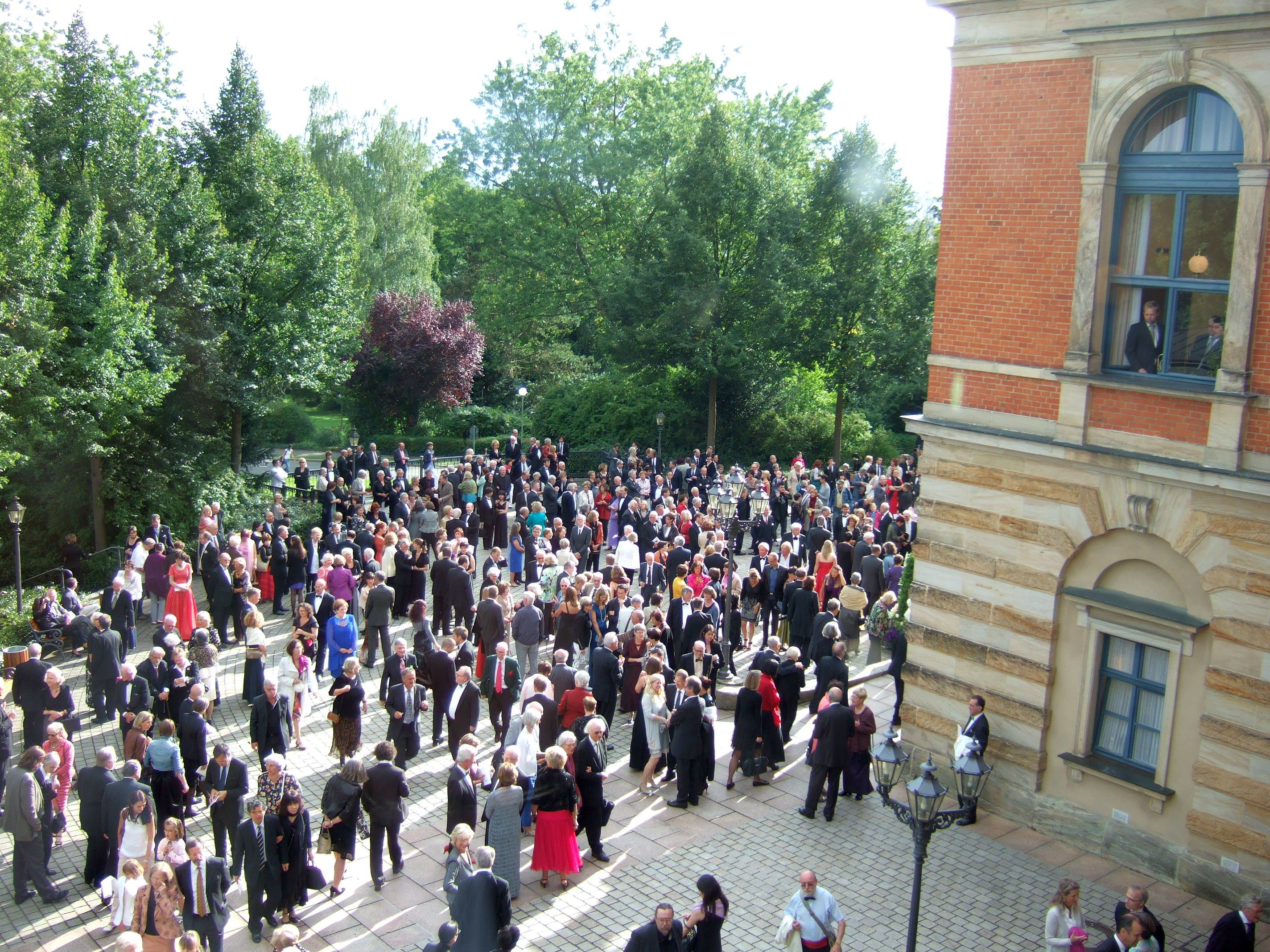 Crowd in the front of Bayreuth Festival Theatre. View from the right staircase-tower window of the theatre.